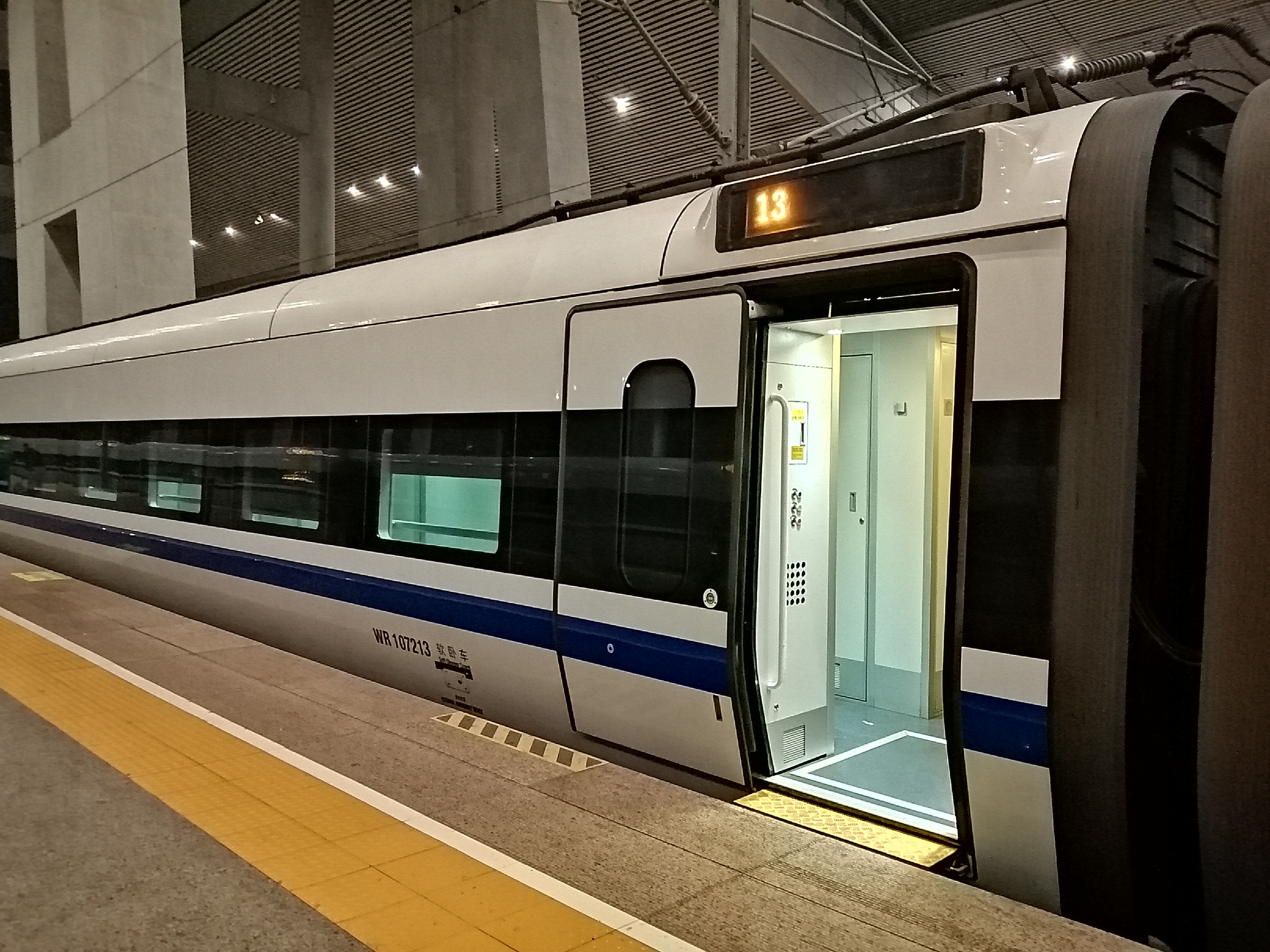 CRH1E-1072 sleeper car, which served as D942, arrived at Xiamen North railway station. This train is departed from Zhuhai and bound for Shanghai Hongqiao, via Zhongshan, Guangzhou South, Shenzhen North, Huizhou South, Xiamen, Ningbo and Hangzhou East. It is the last train of the day. 中文（中国大陆）: CRH1E-1072担当的D942次列车停靠在厦门北站。本车由珠海始发，开往上海虹桥，同时也是厦门北站当日的末班车。